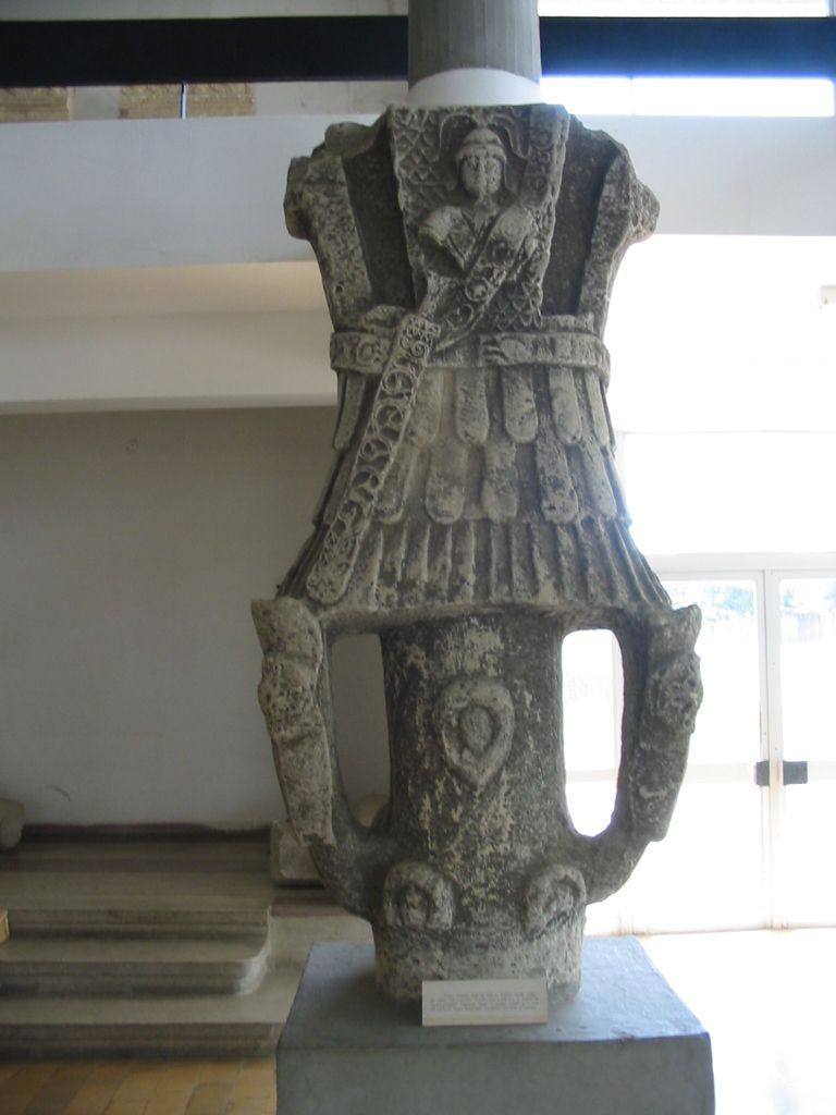 Trophy found at Civitas Tropaensium (Adamclisi) - a smaller copy of the original monument which was installed at the eastern city gates during Constantine and Licinius.